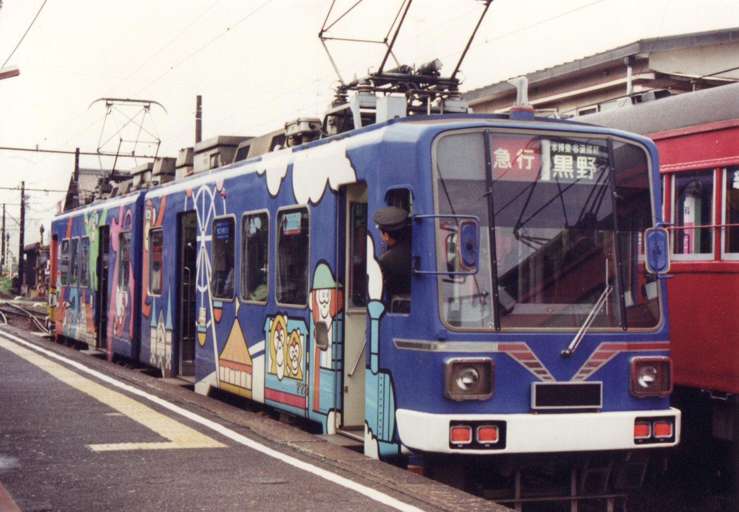 This is the picture of "Mo770"(used to run in Nagoya Railway).